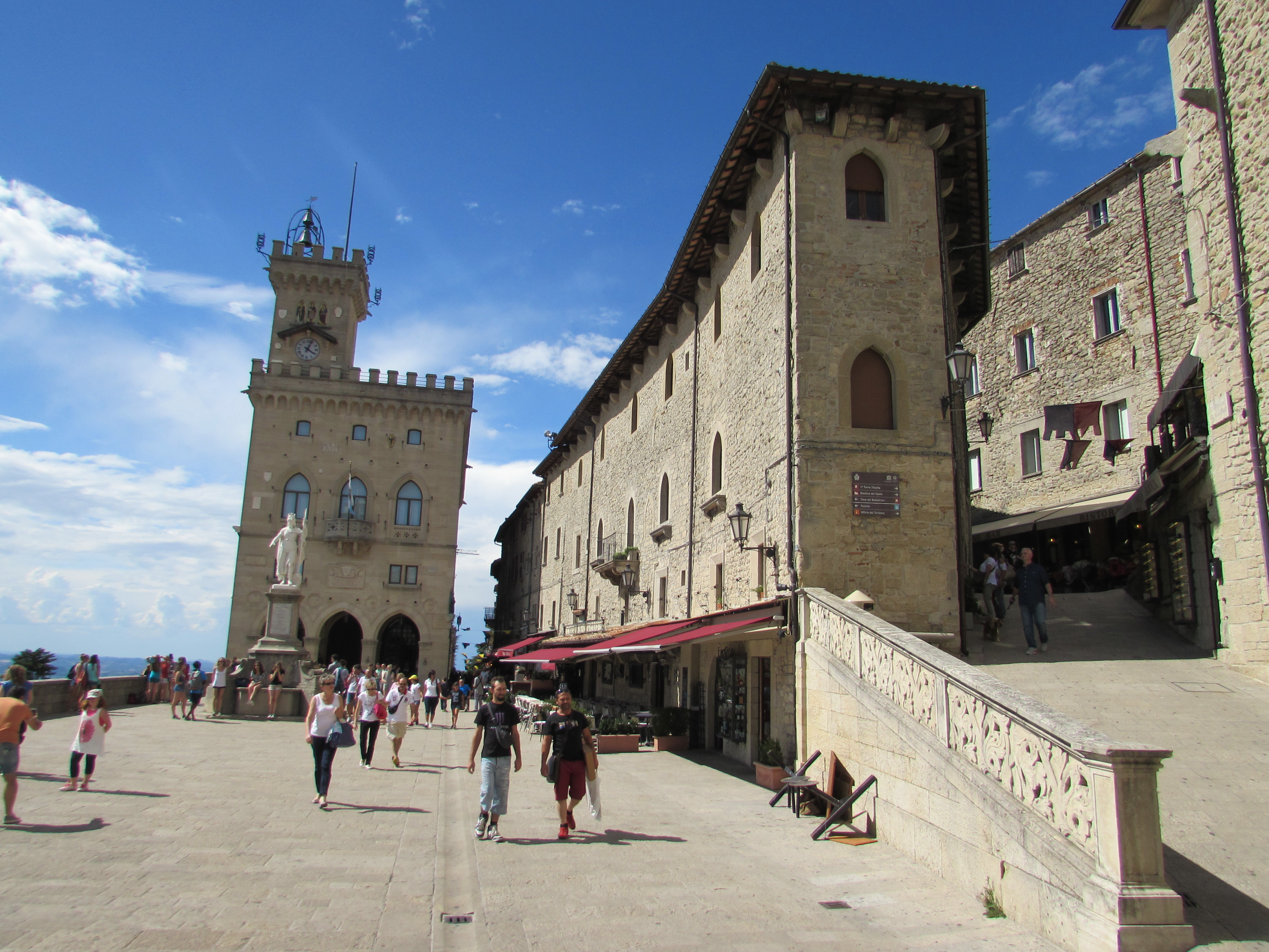 Street in San Marino